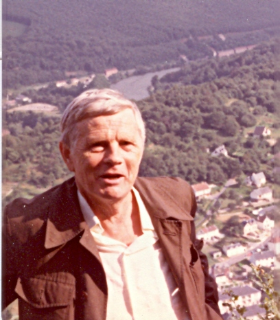 Henryk Jurkowski (my father) with a view